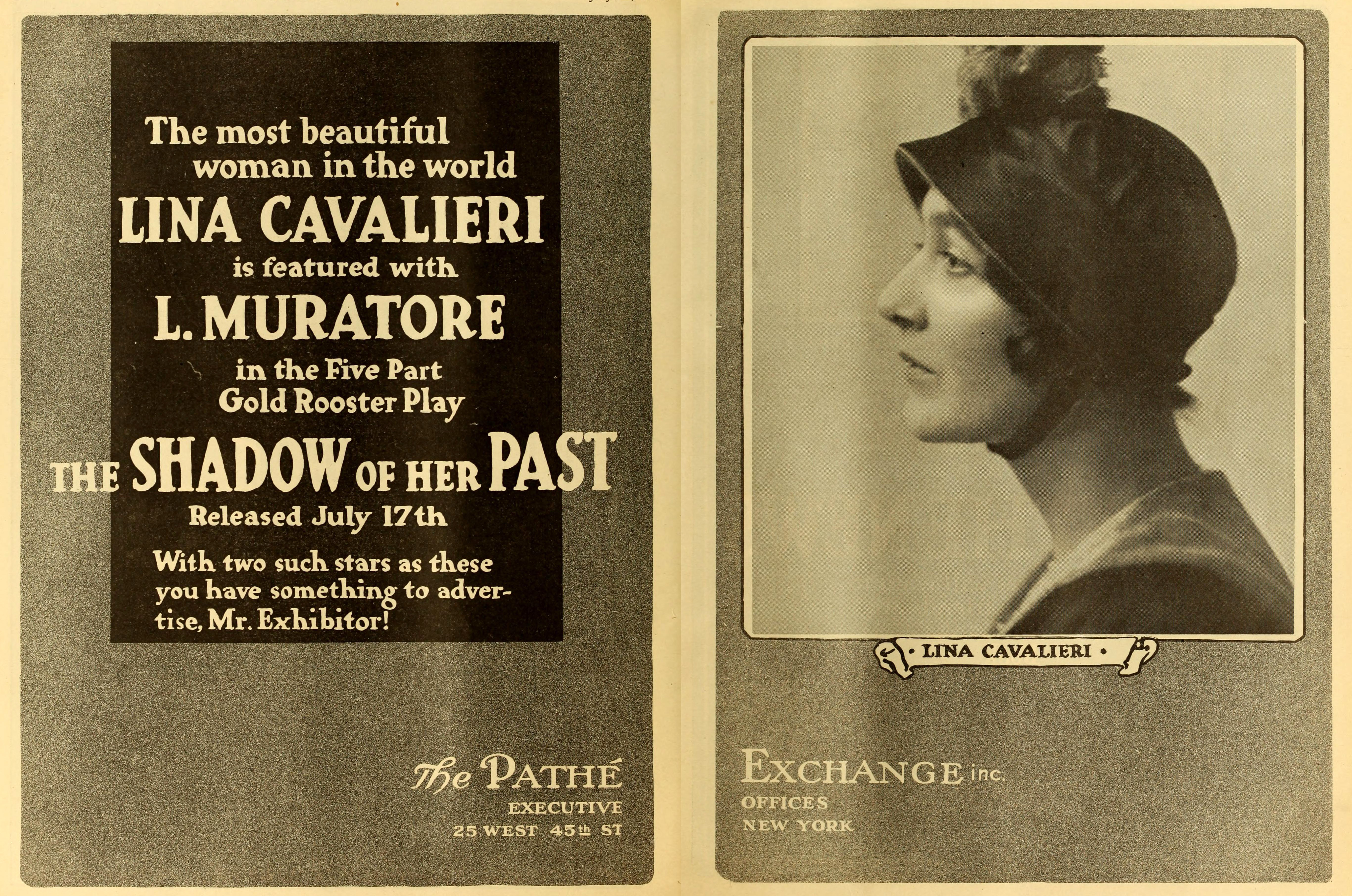 Advertisement in The Moving Picture World